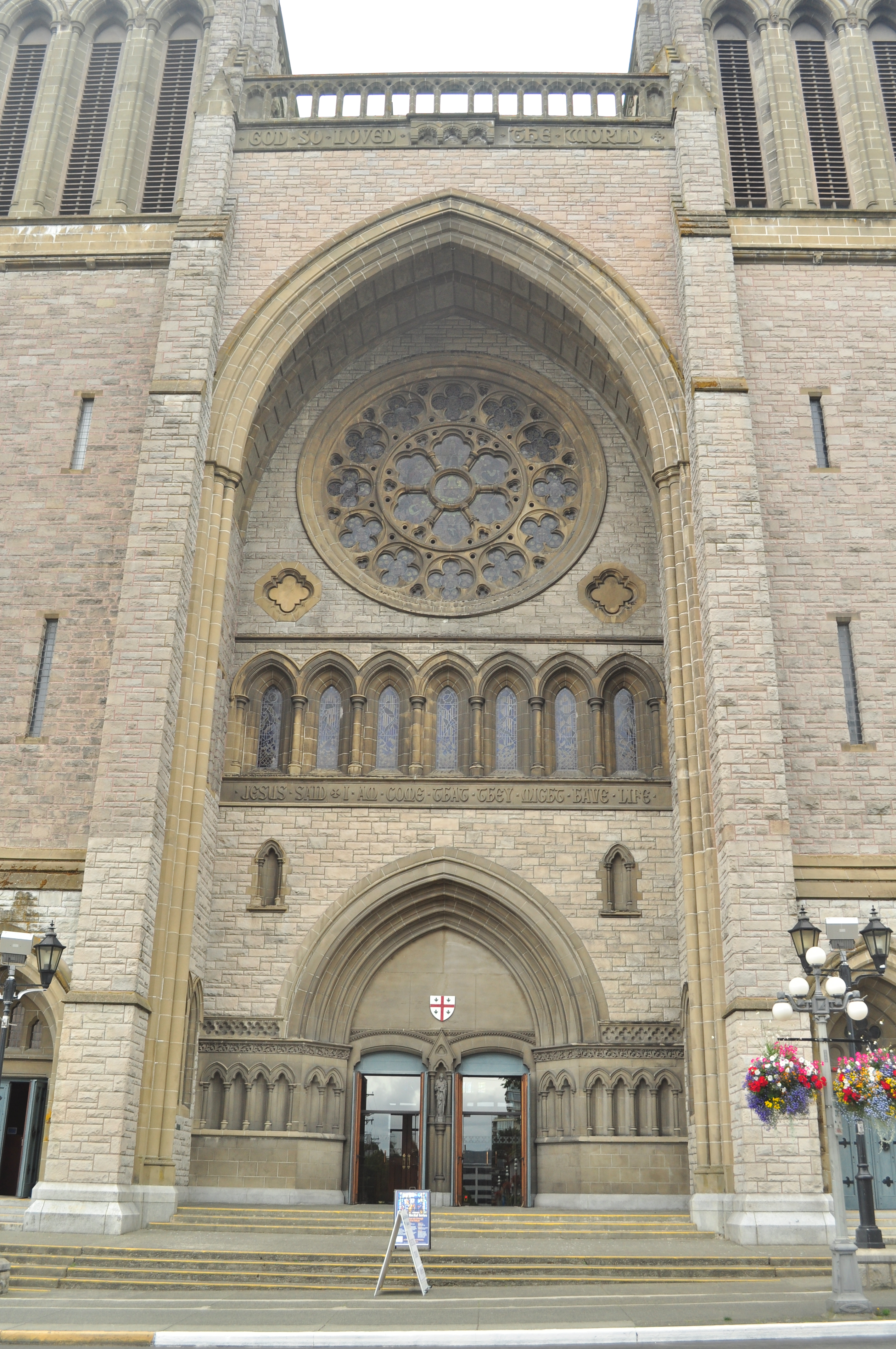 Detail of west (front) façade, Christ Church Cathedral, Victoria, British Columbia.